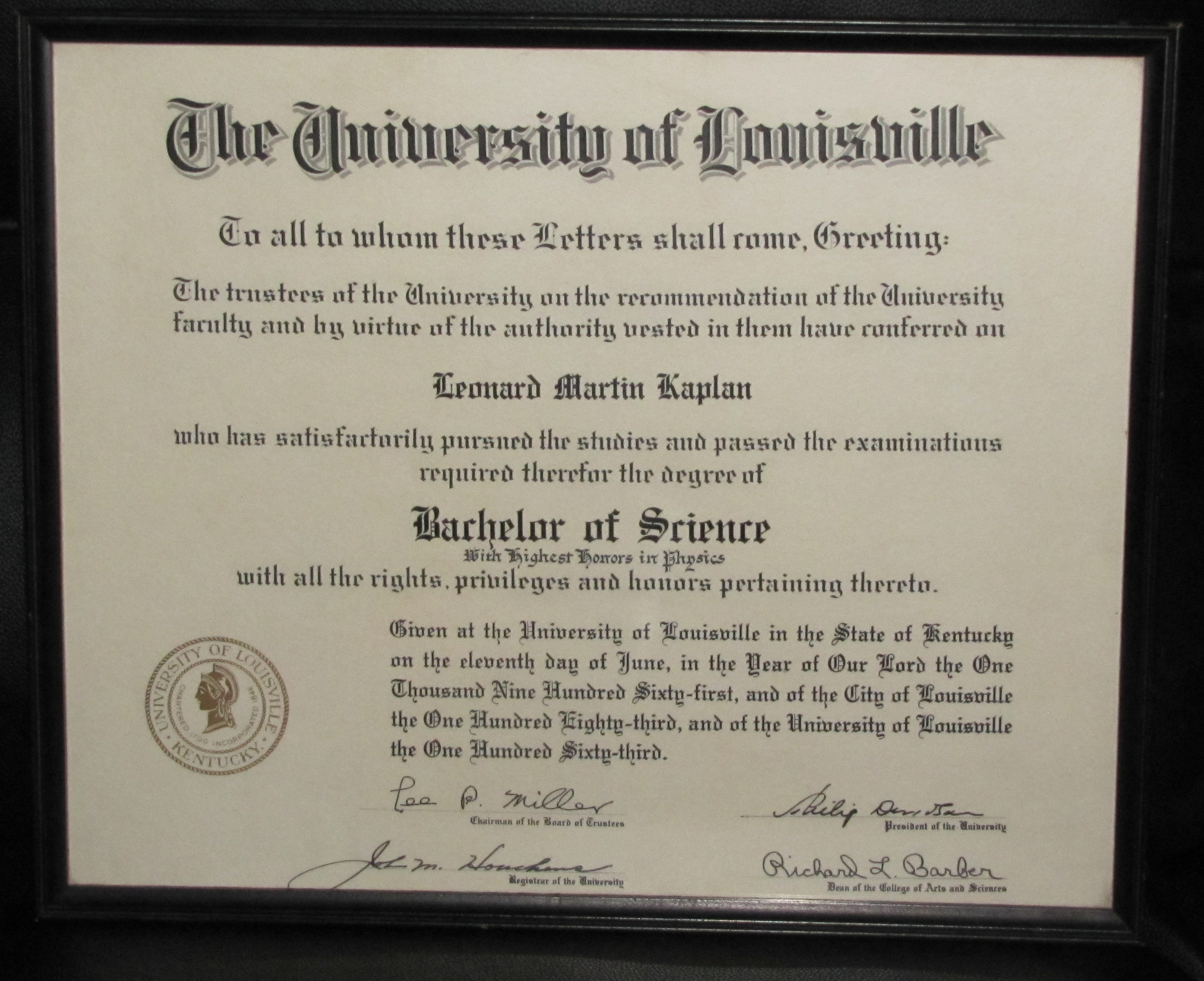 Photograph of Rabbi Aryeh Kaplan's Bachelor's Science (BS) degree in Physics, which he received in 1961.